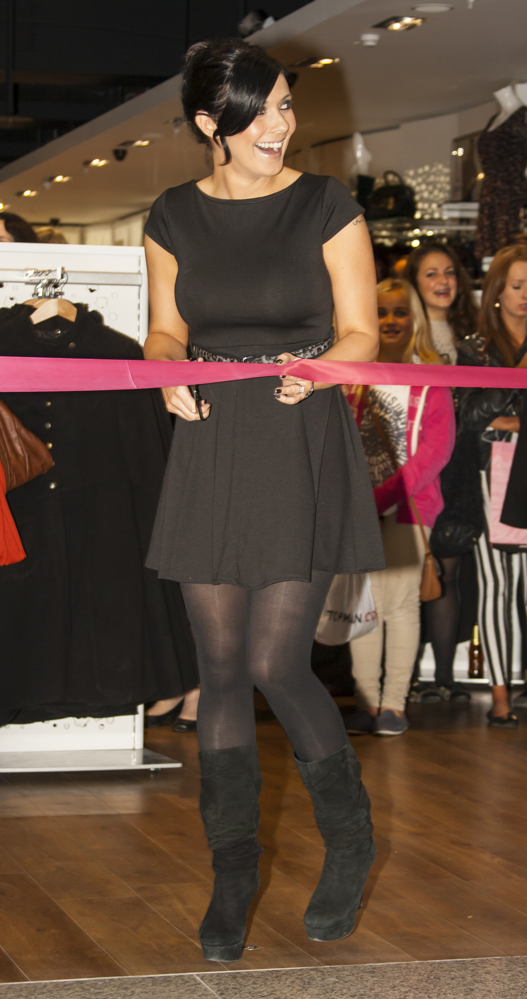 Kym Marsh opening a clothes shop at the Arndale Centre in Manchester, October 2012.